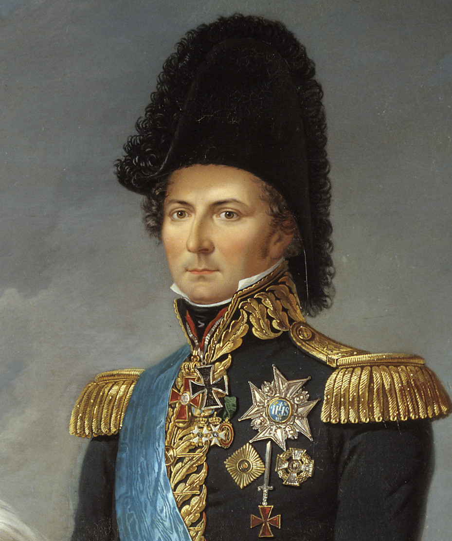 Karl XIV Johan, king of Sweden and Norway (1763-1844), as crown prince, entering Leipzig 1813.